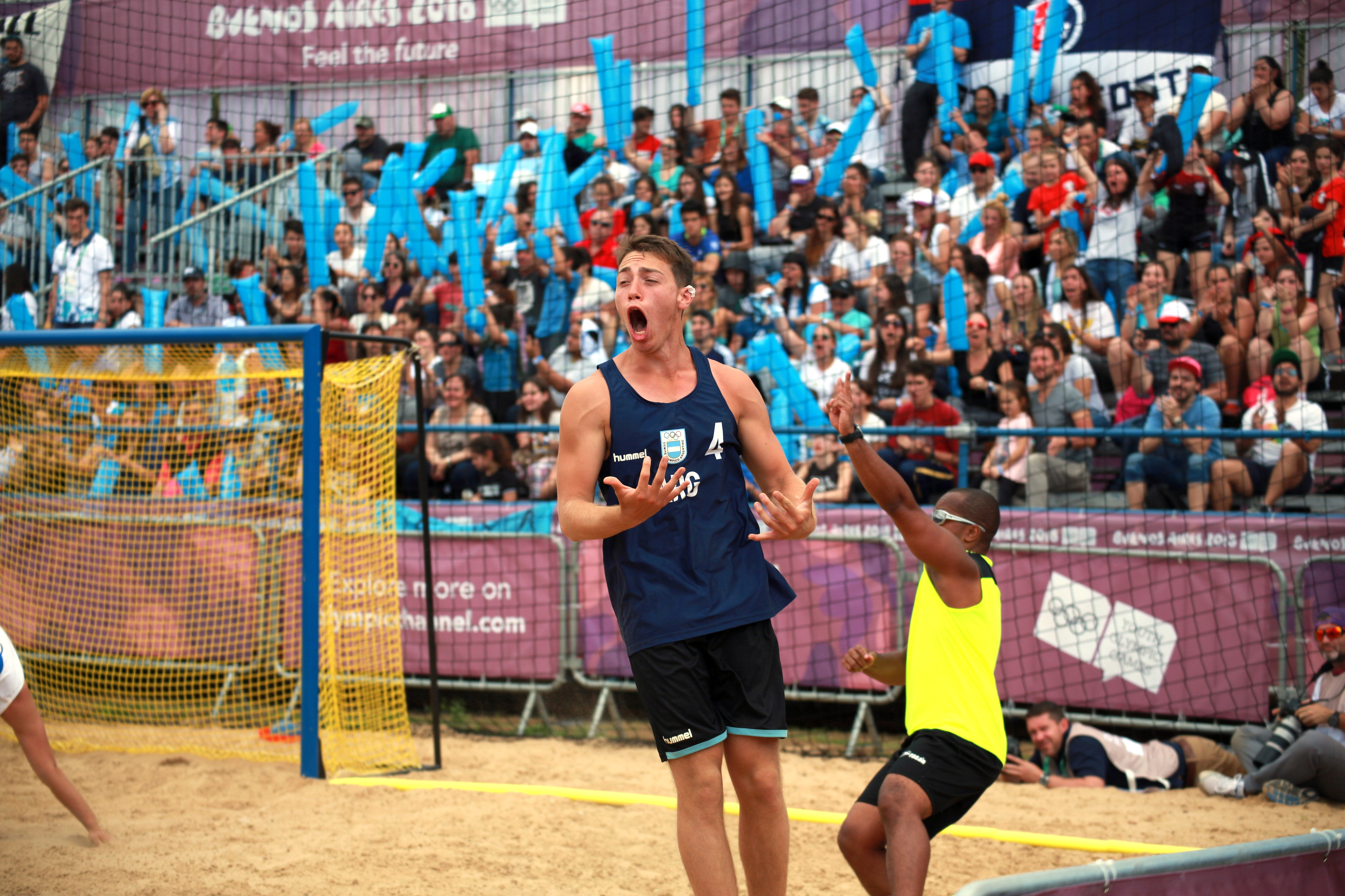 Beach handball at the 2018 Summer Youth Olympics at 13 October 2018 – Boys Bronze Medal Match – Argentina-Croatia 2:0